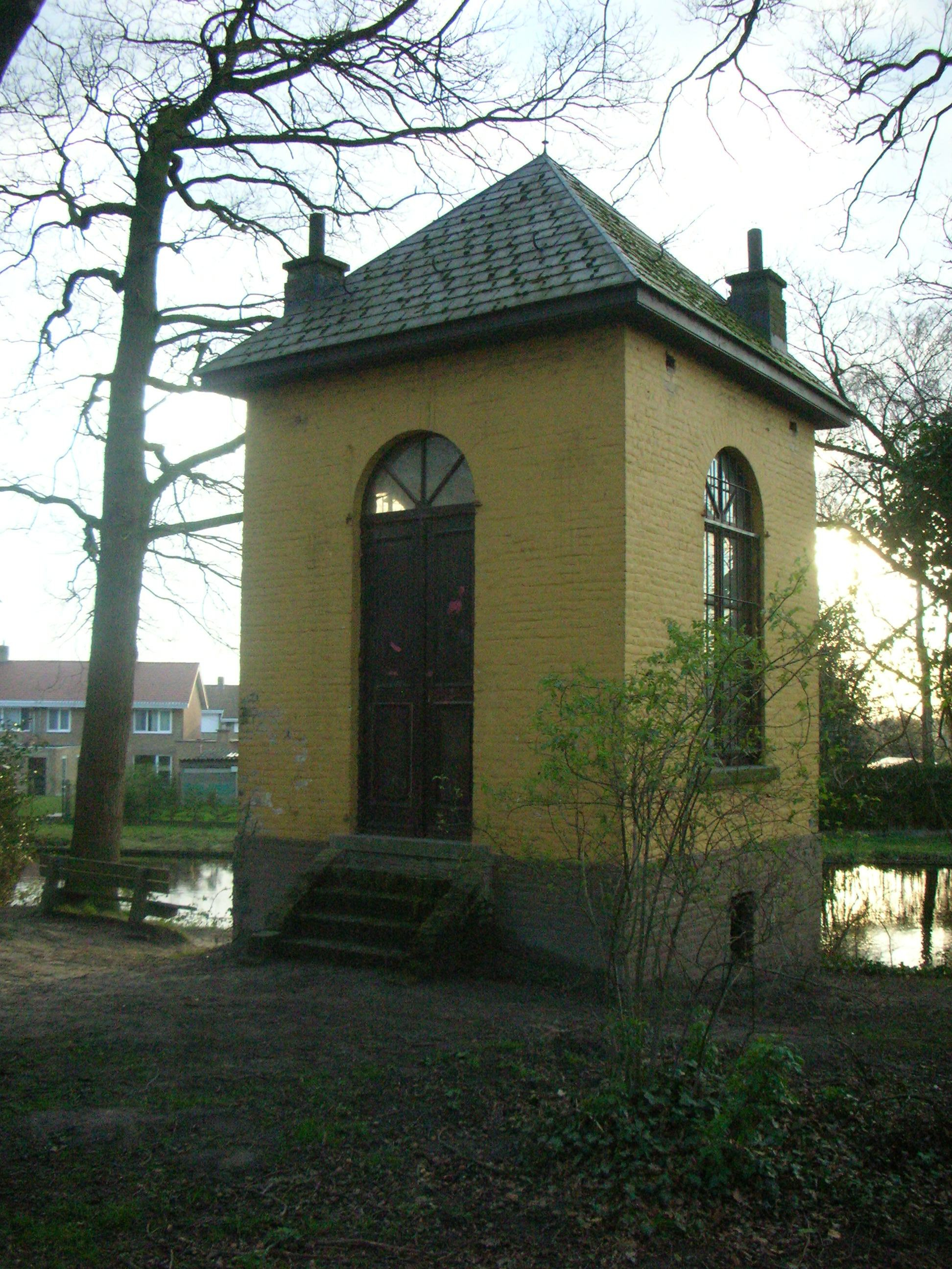 Restored bathouse house of the former castle of Zwevezele. Zwevezele, Wingene, West Flanders, Belgium